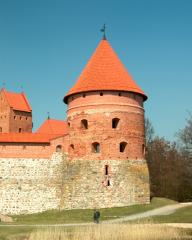 Trakai Island Castle, Right Pillon